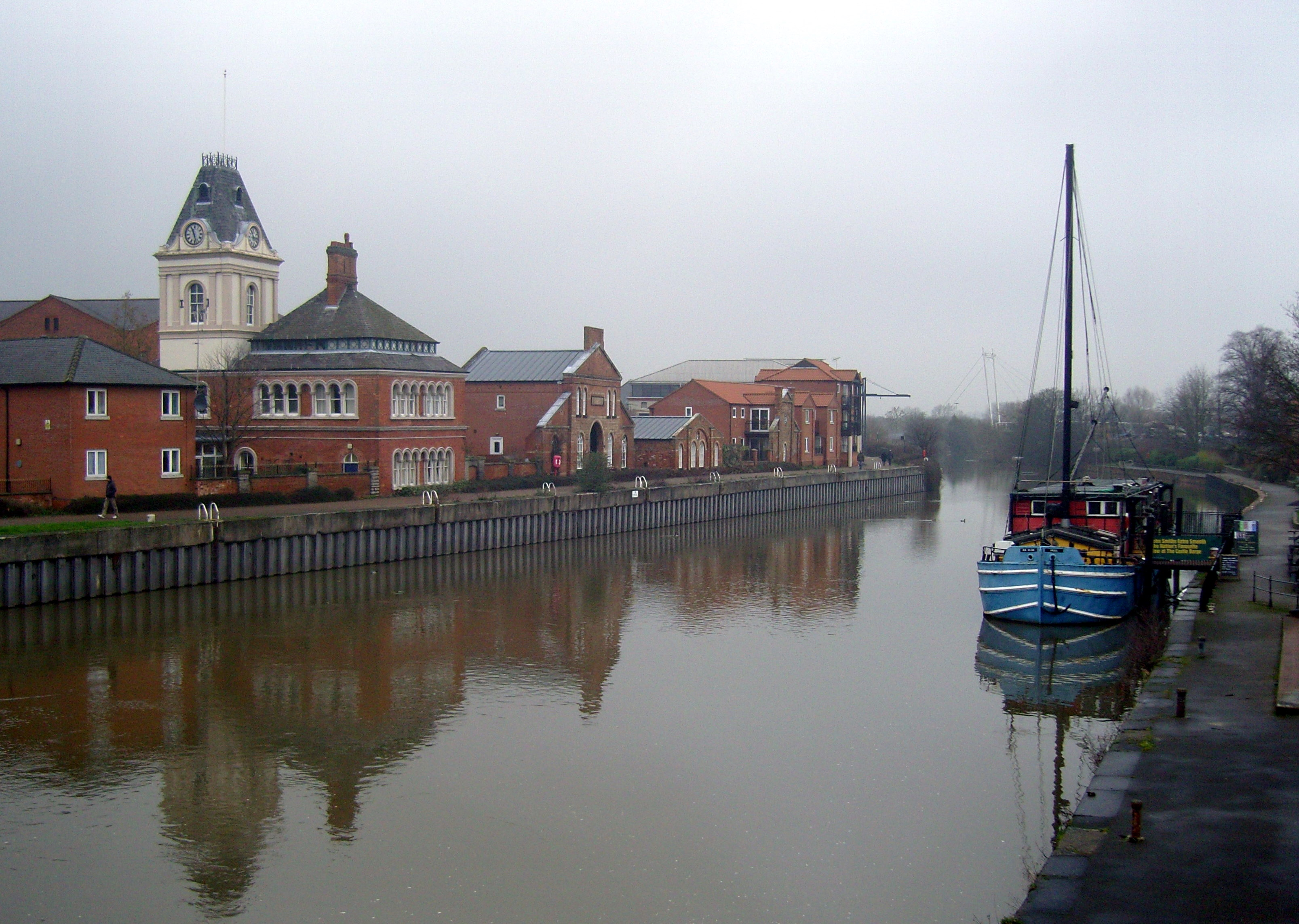 River Trent, Newark-on-Trent, Nottinghamshire